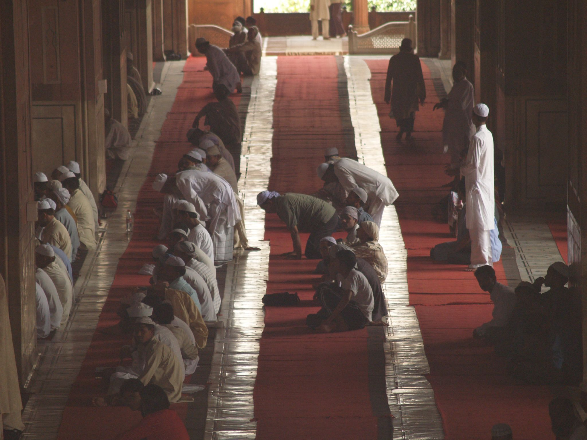 Friday prayer at the Jama Masjid, Dehli